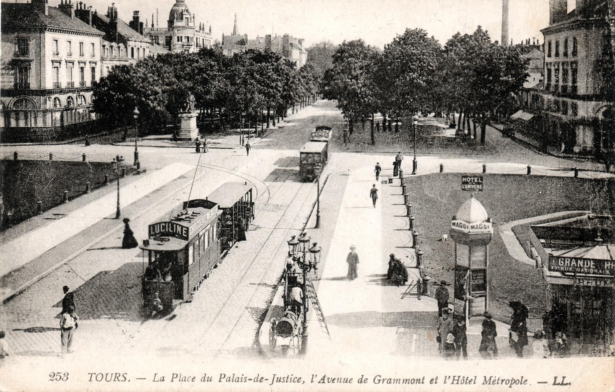 Electric Tram in Tours(France), place du Palais-de-Justice vintage postcard published by "LL" in 1910